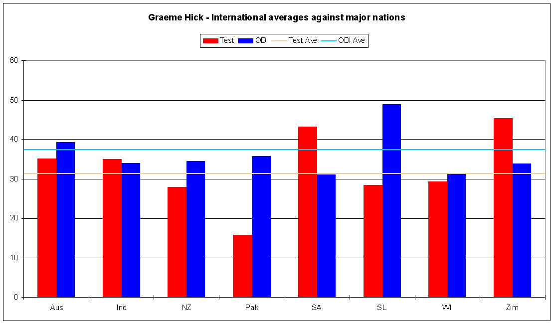 Graeme Hick's international batting averages against major nations